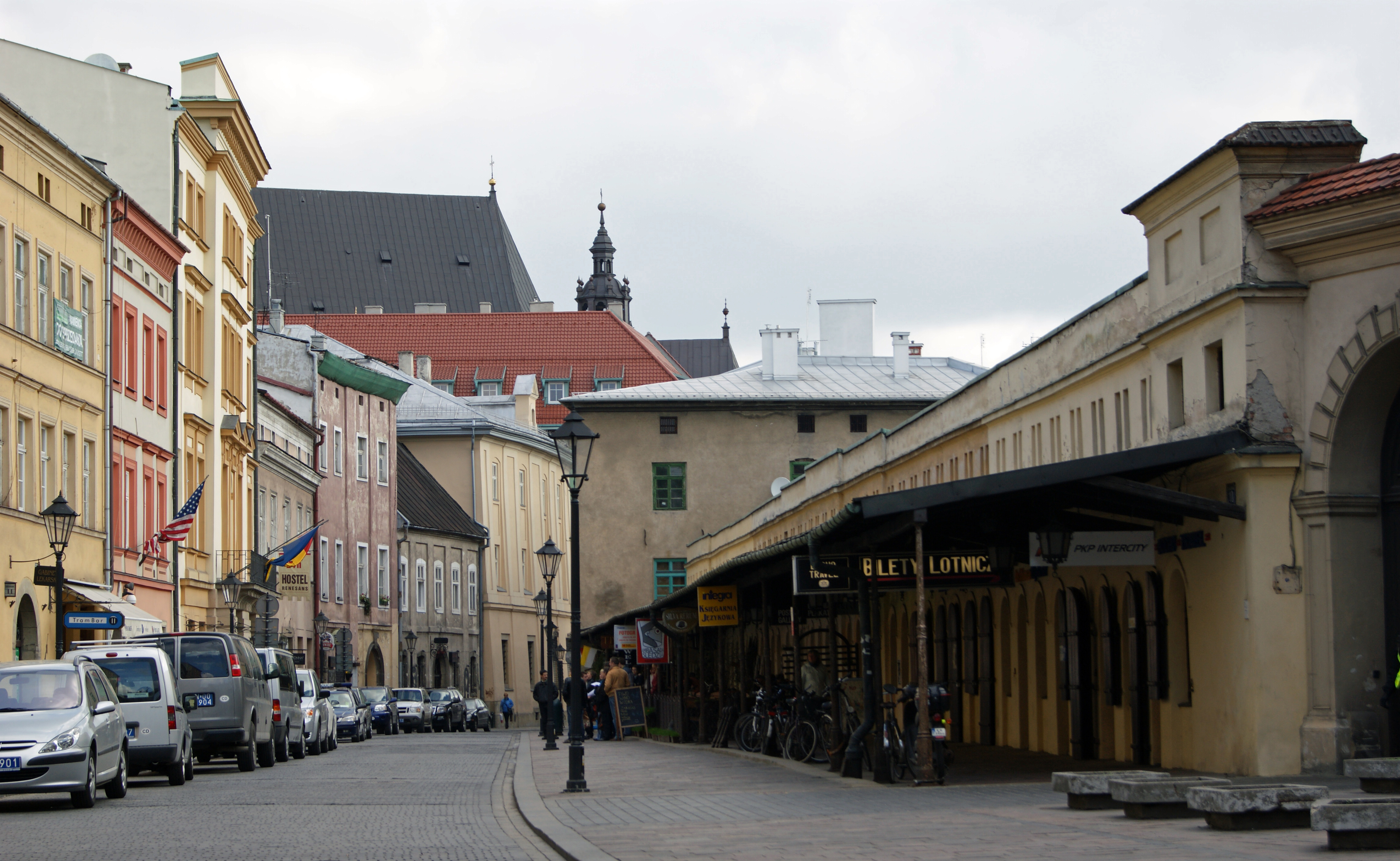 Stolarska street (view to N), Old Town, Krakow, Poland